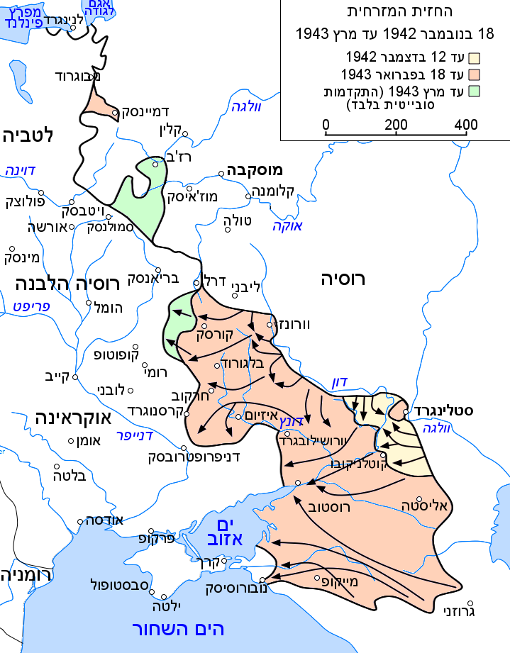 Soviet advances on the Eastern Front (WWII), en:1942-en:11-18 to March en:1943Drawn by User:Gdr Category:Maps of the history of Europe Category:Maps of World War II in Europe Слика:Eastern Front 1942-11 to 1943-03.png